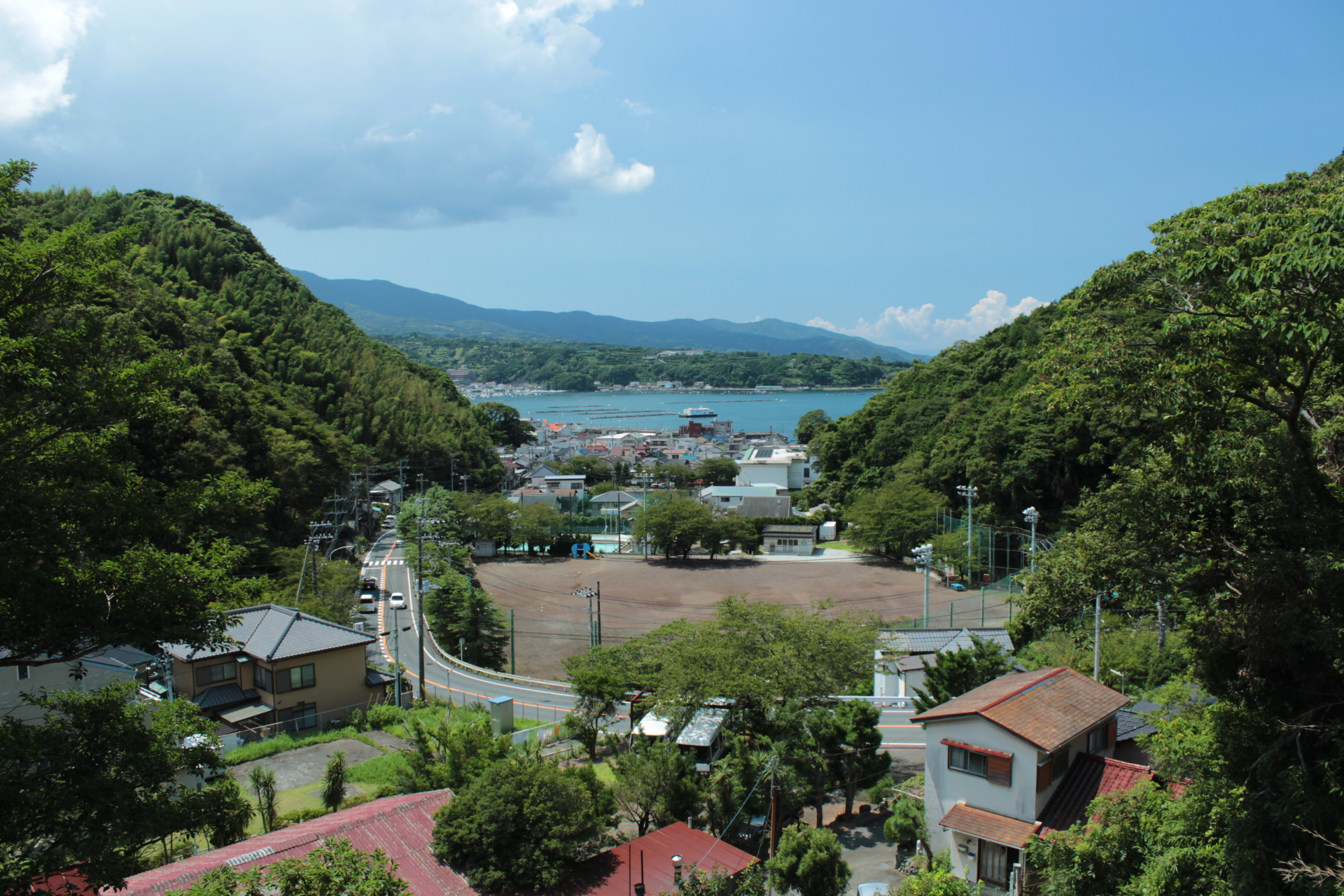 View of Uchiuramito in Numazu, Shizuoka Prefecture, Japan.